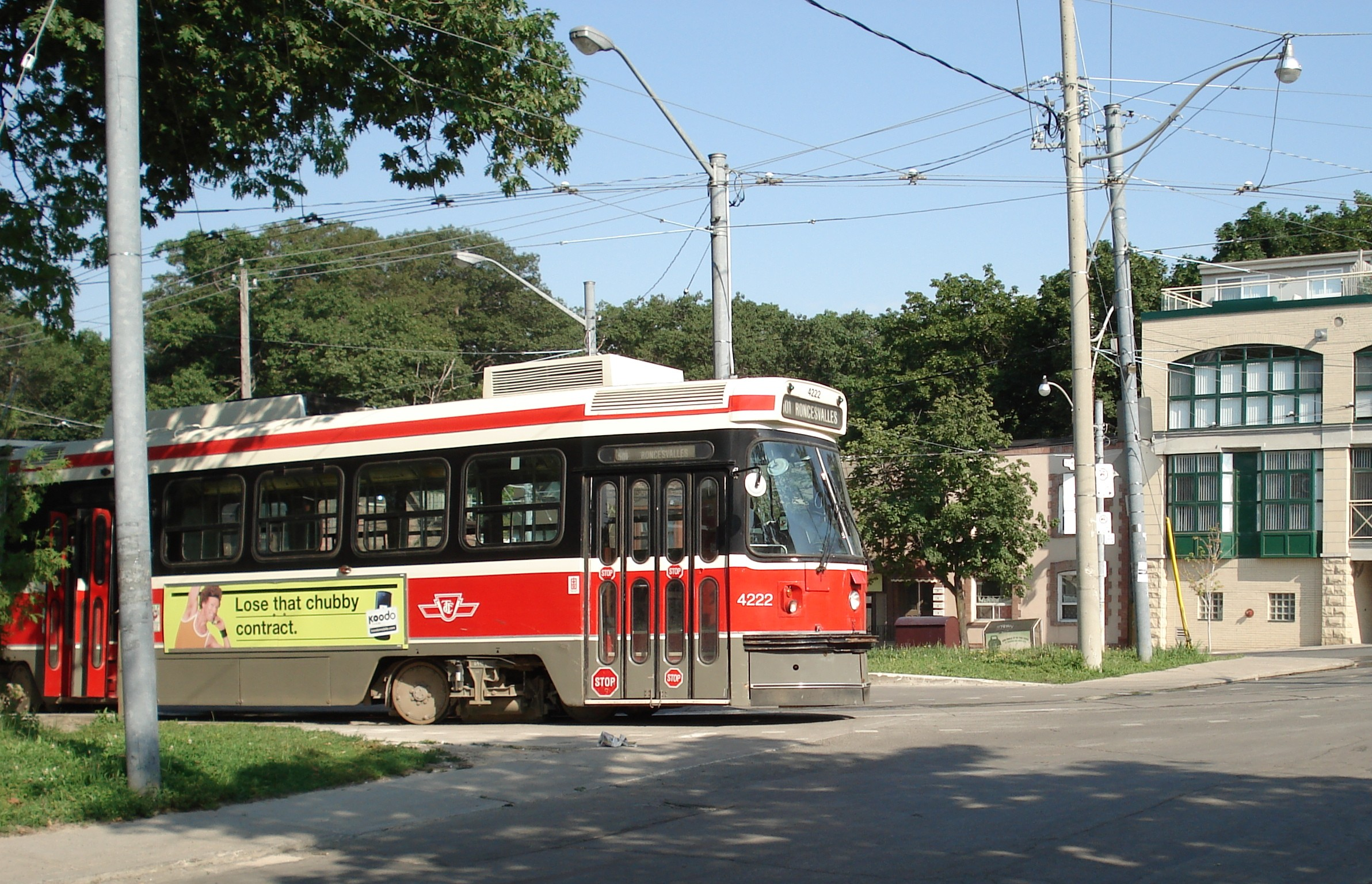 TTC Streetcar at Neville Loop